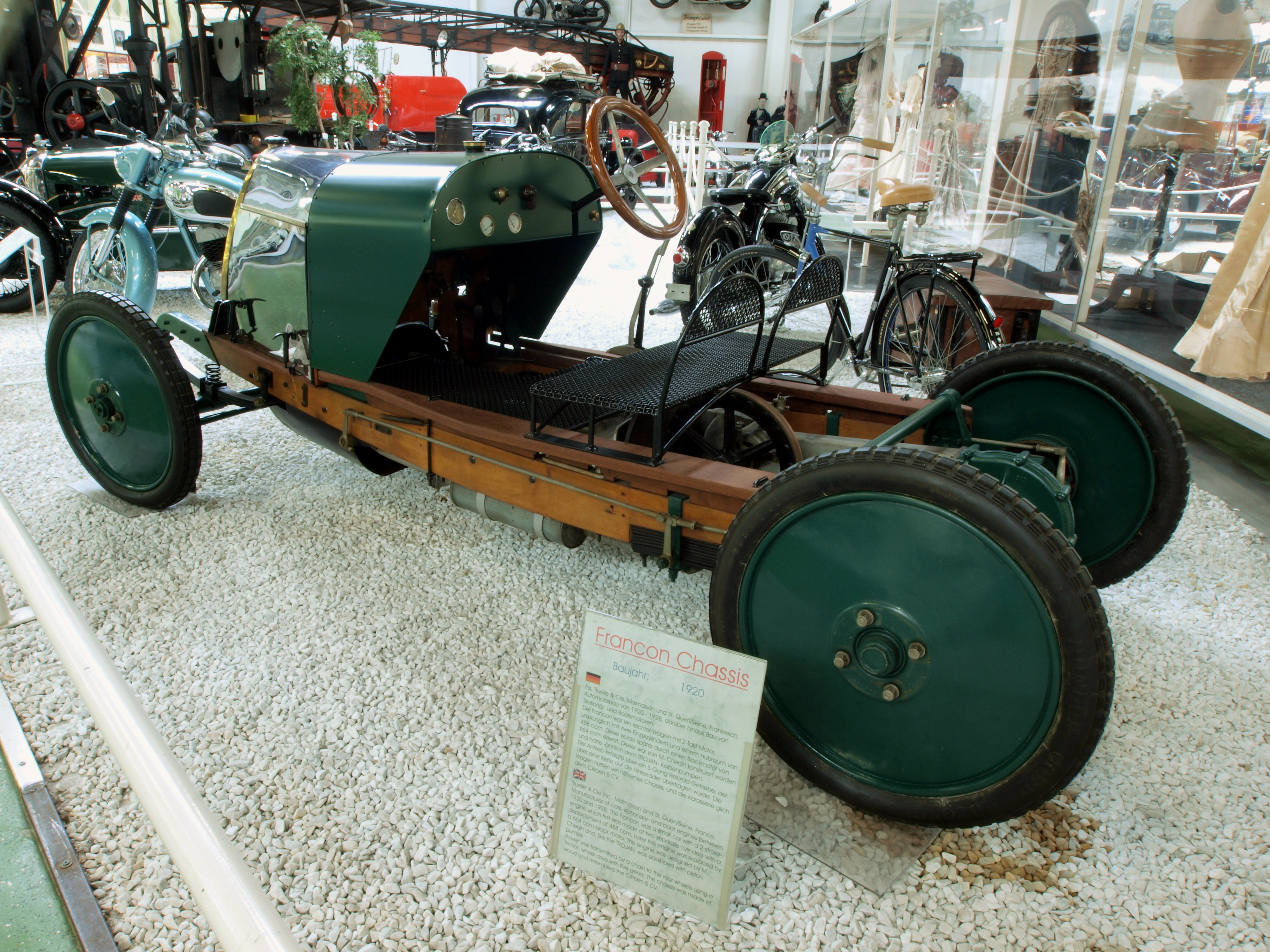 Photographed at the Auto & Technic museum Sinsheim.